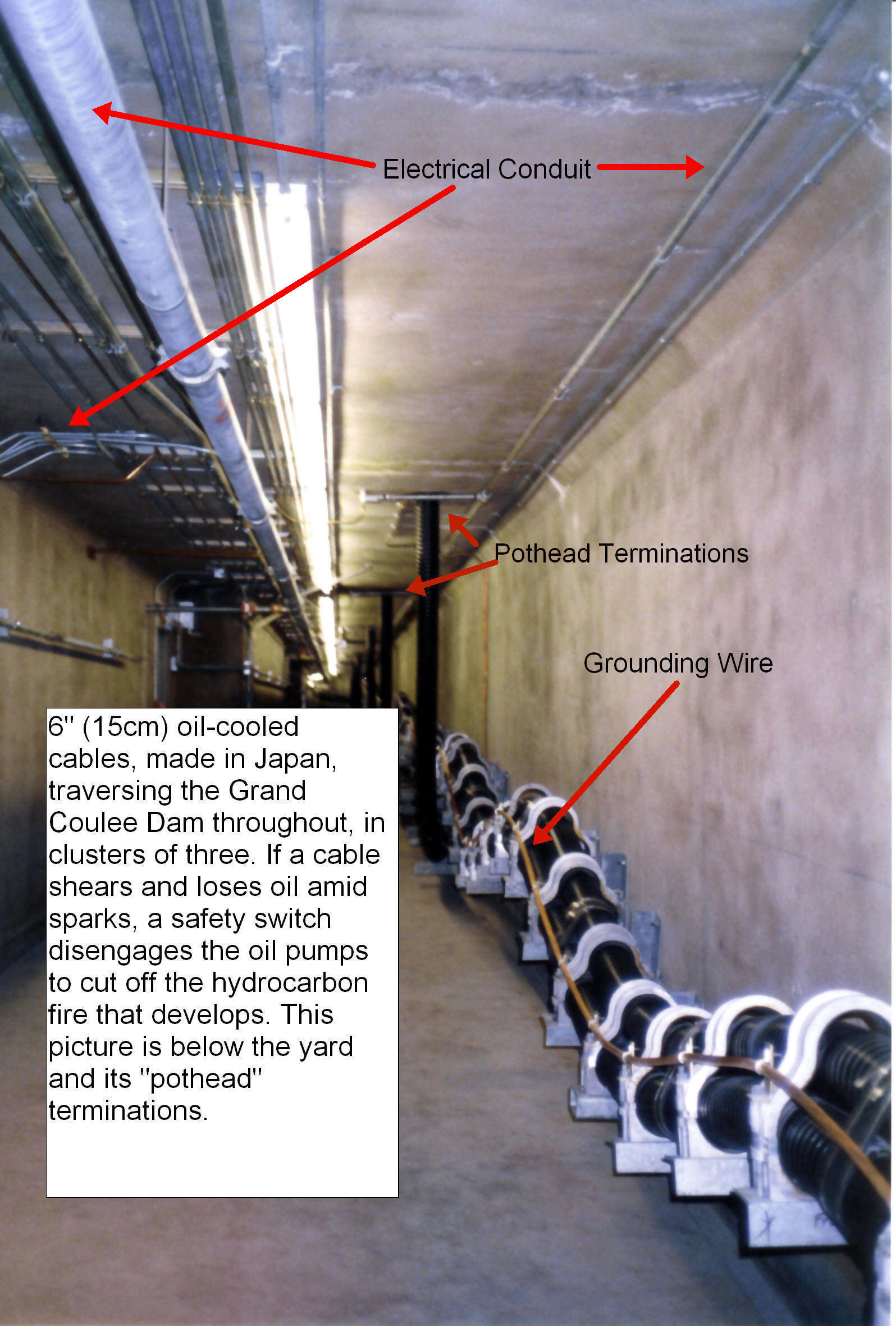 6" or 15 cm outside diameter, oil-cooled cables, traversing the Grand Coulee Dam throughout. These cables are connected to powerful pumps that pump the oil through them while in operation. Safety switches turn off the oil flow in the event of a leak, in order to limit the effects of a hydrocarbon fire.